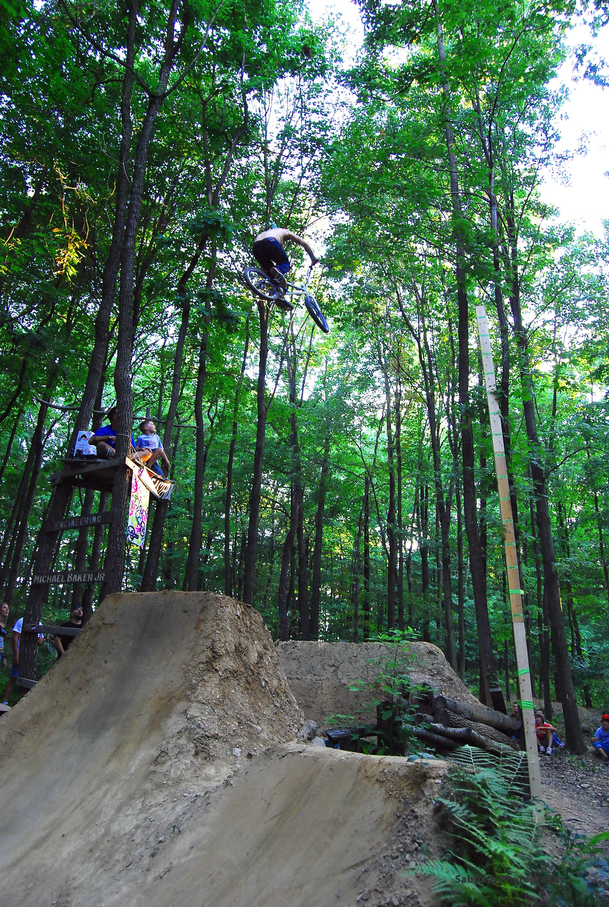 The spectators on the platform are at 16 feet....